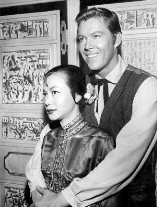 Photo of Maria Tsien and Adam Kennedy from the television Western, The Californians. Kennedy played Dion Patrick, an Irish newspaperman, in the series.